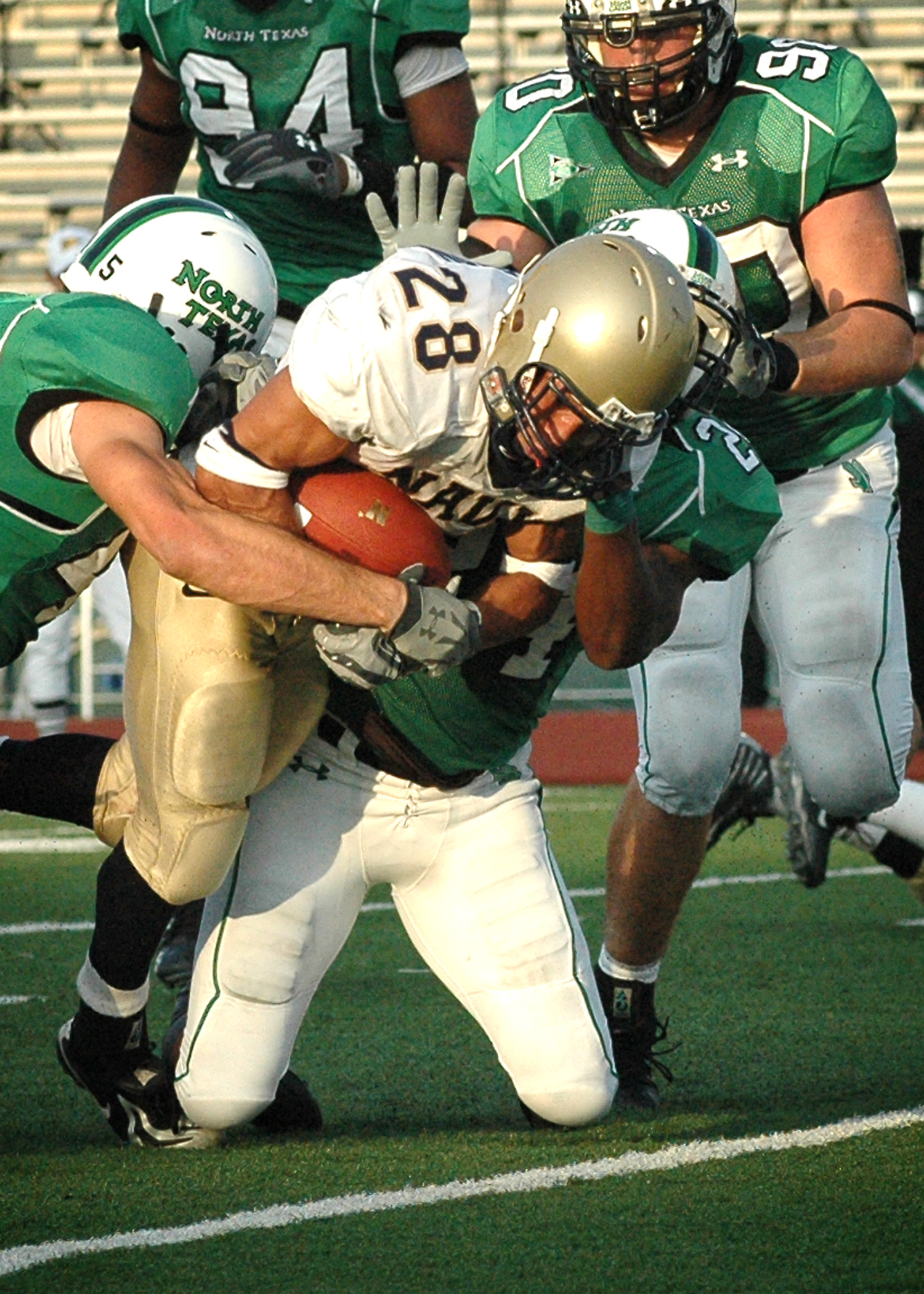 DENTON, Texas (Nov. 10, 2007) Navy Midshipmen running back, Zerbin Singleton, is tackled by University of North Texas (UNT) defense during the Navy vs. UNT football game. The games final score was Navy 74 - UNT 62. The 136 points scored between Navy and North Texas sets a NCAA record for most points scored in a regulation game since the NCAA started tracking the record in 1937. The 63 combined points scored in the second quarter was also a NCAA record for points in a quarter. U.S. Navy photo by Mass Communication Specialist 2nd Class D. Keith Simmons (Released)